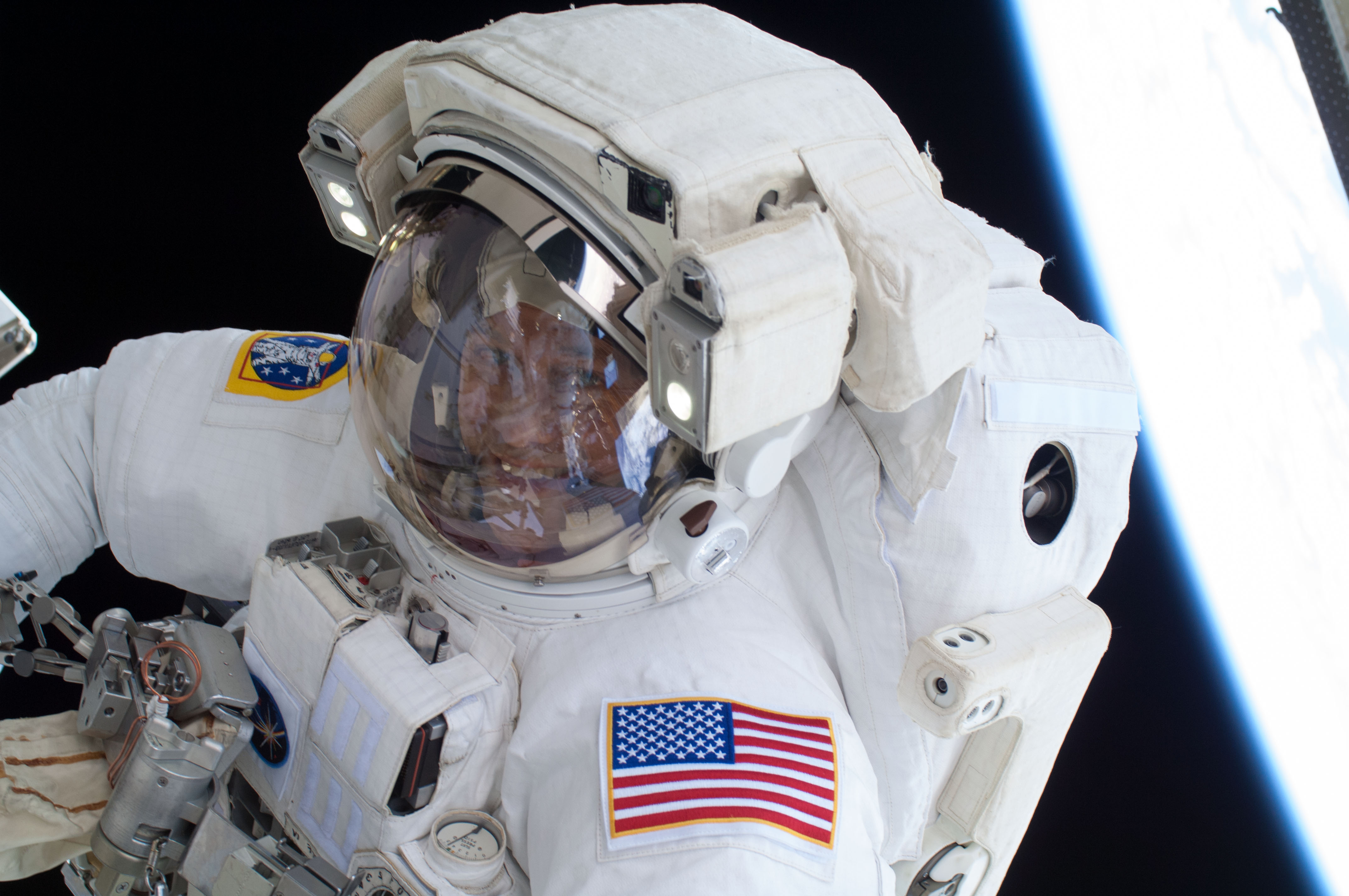 Expedition 35 Flight Engineers Tom Marshburn (pictured) and Chris Cassidy (out of frame) completed a space walk at 2:14 p.m. EDT May 11 to inspect and replace a pump controller box on the International Space Station's far port truss (P6) leaking ammonia coolant. The two NASA astronauts began the 5-hour, 30-minute space walk at 8:44 a.m.